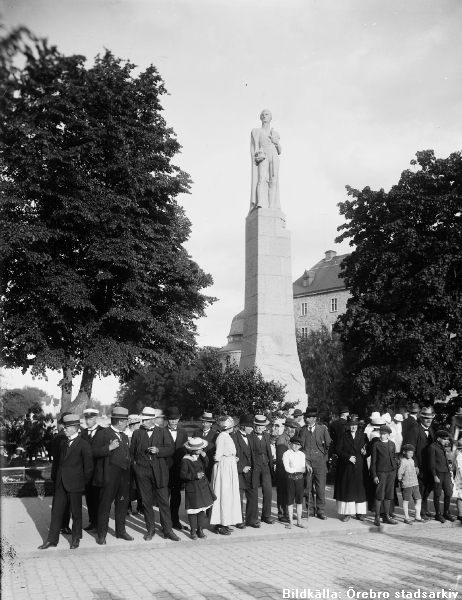 Statue of the king Karl XIV Johan, Örebro, Sweden